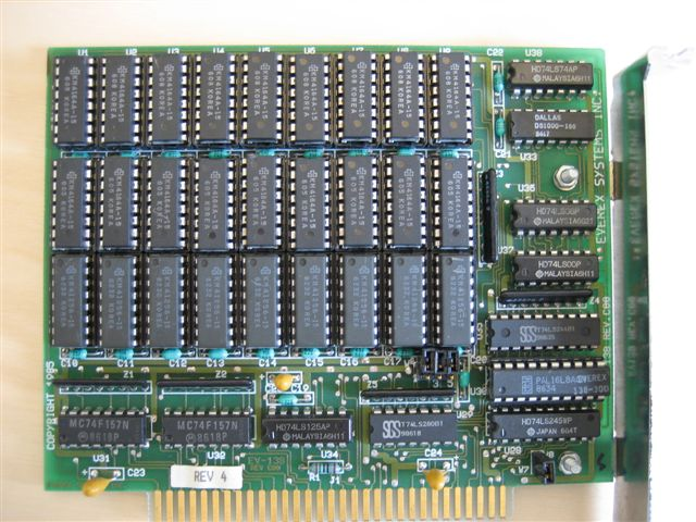 Memory Card for IBM 5150